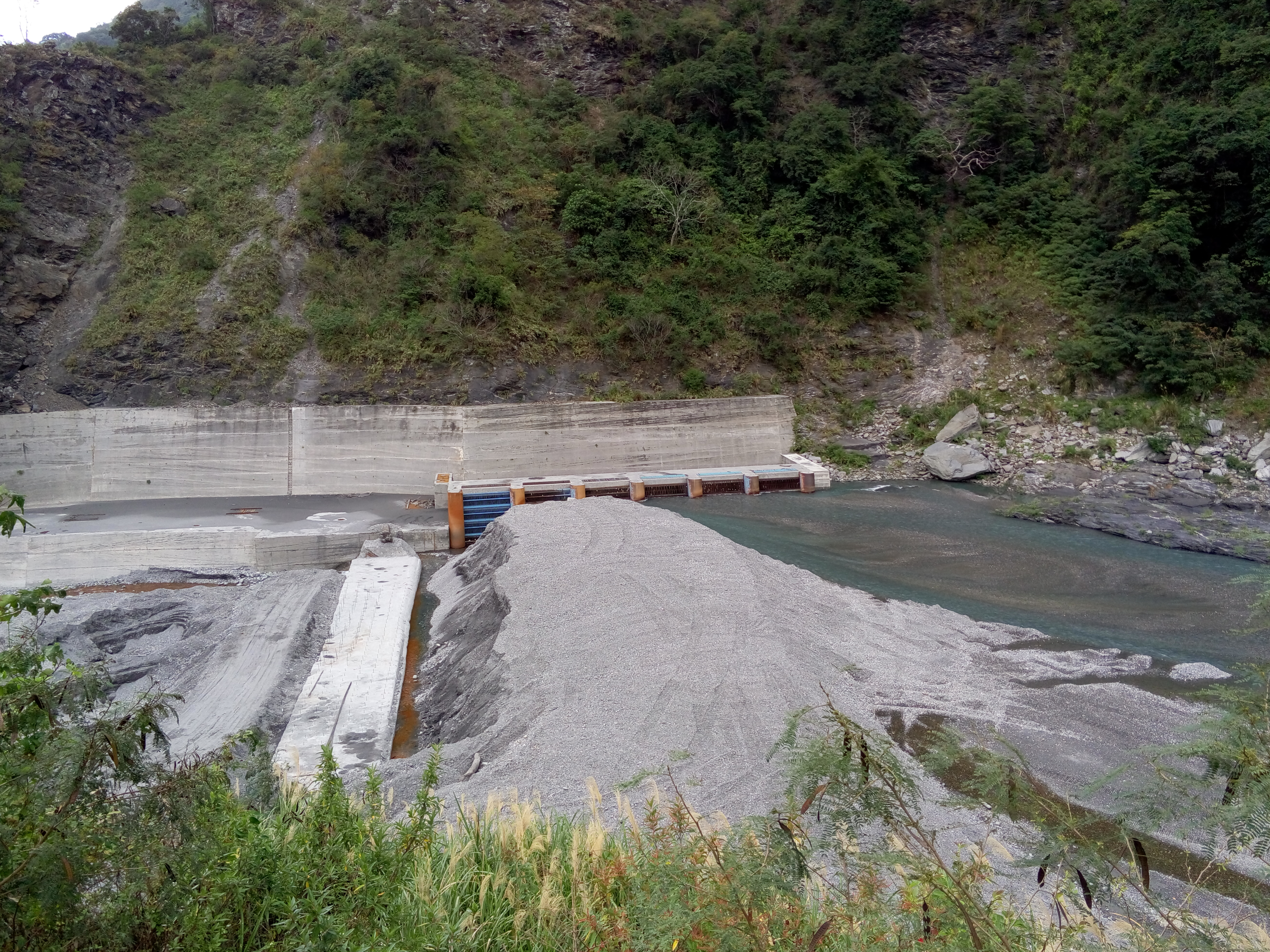 Taiwan(R.O.C)Taitung Yanping Township Beinan first waterway